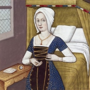 Argia is a daughter of King Adrastus of Argos and the wife of Polynices.